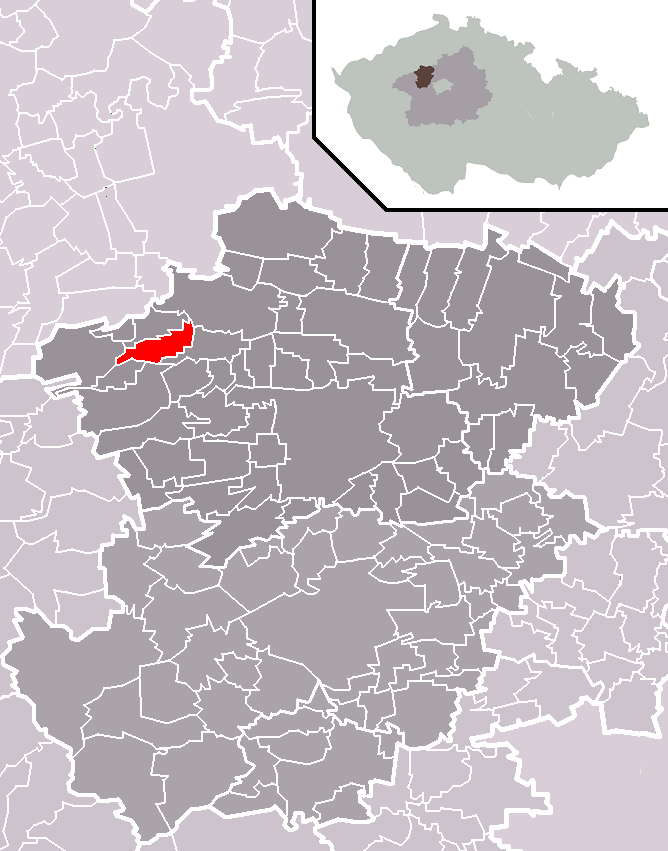 Location of Hořešovice municipality within Kladno District and administrative area of Slaný as a Municipality with Extended Competence.